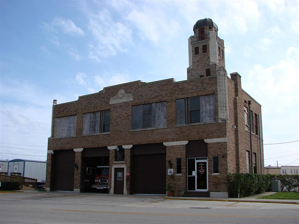 Central Station, Sebring fire station, Sebring, Florida. March 3, 2007.